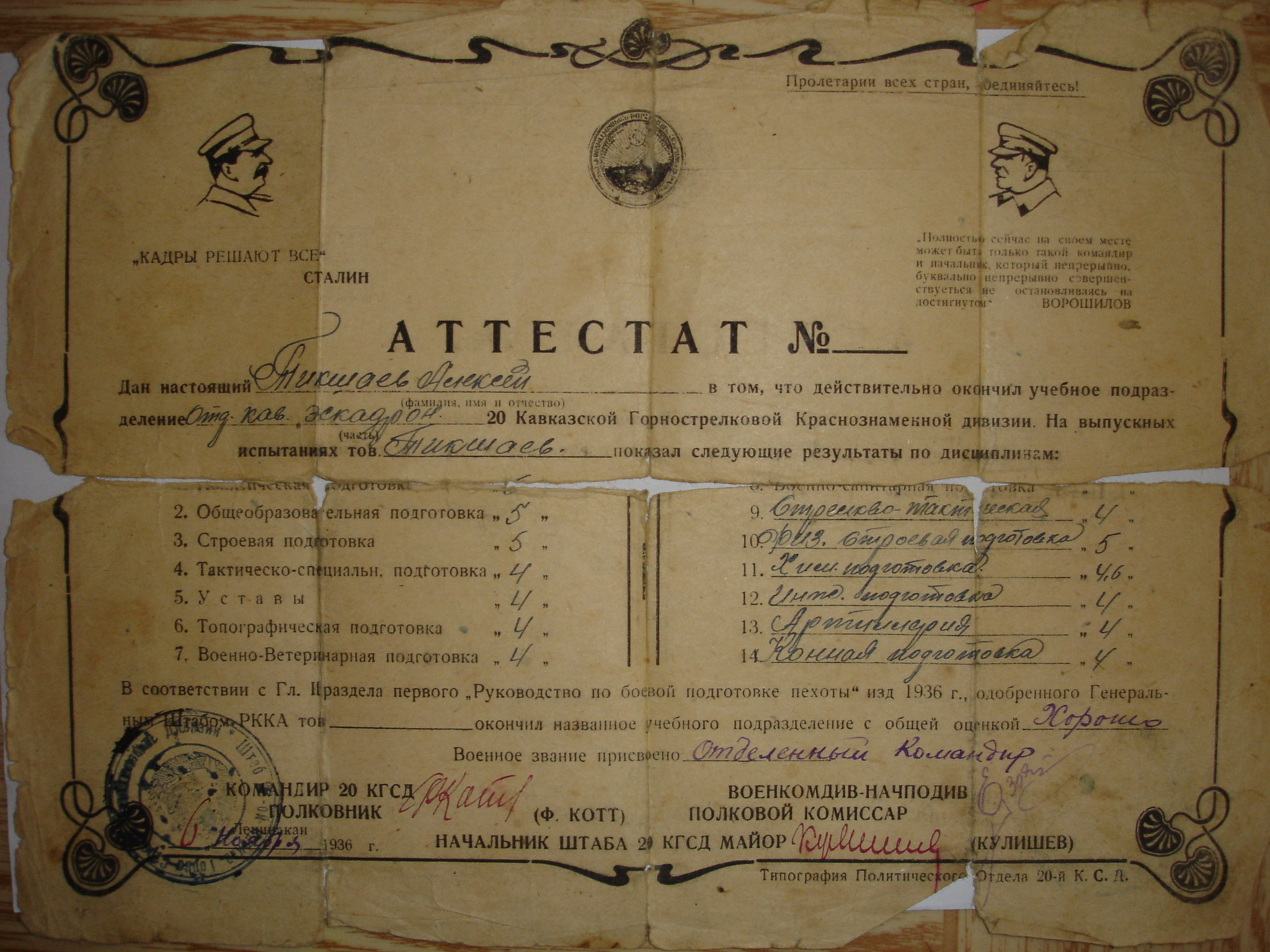 November 6, 1936. «The diploma certifies that Tikshaev Alexey successfully graduated Caucasian Cavalry Squad of the 20-th Caucasian Mountain Division RKKA. Also verify the rank of the owner as a commander.»